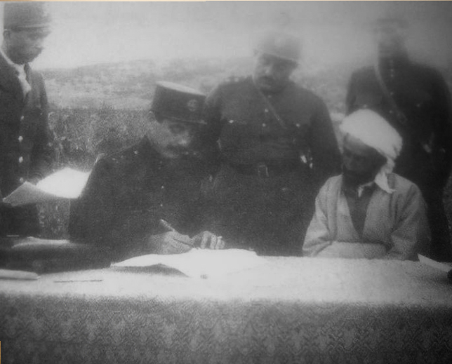 repulic of mahabad